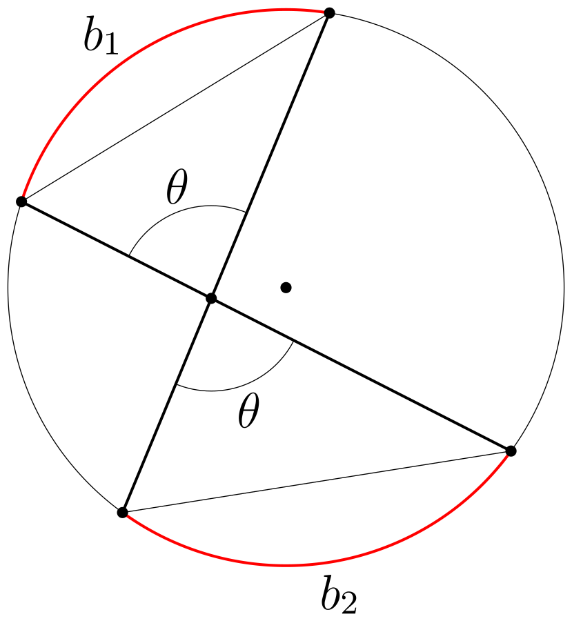 Crossed chords in a circle